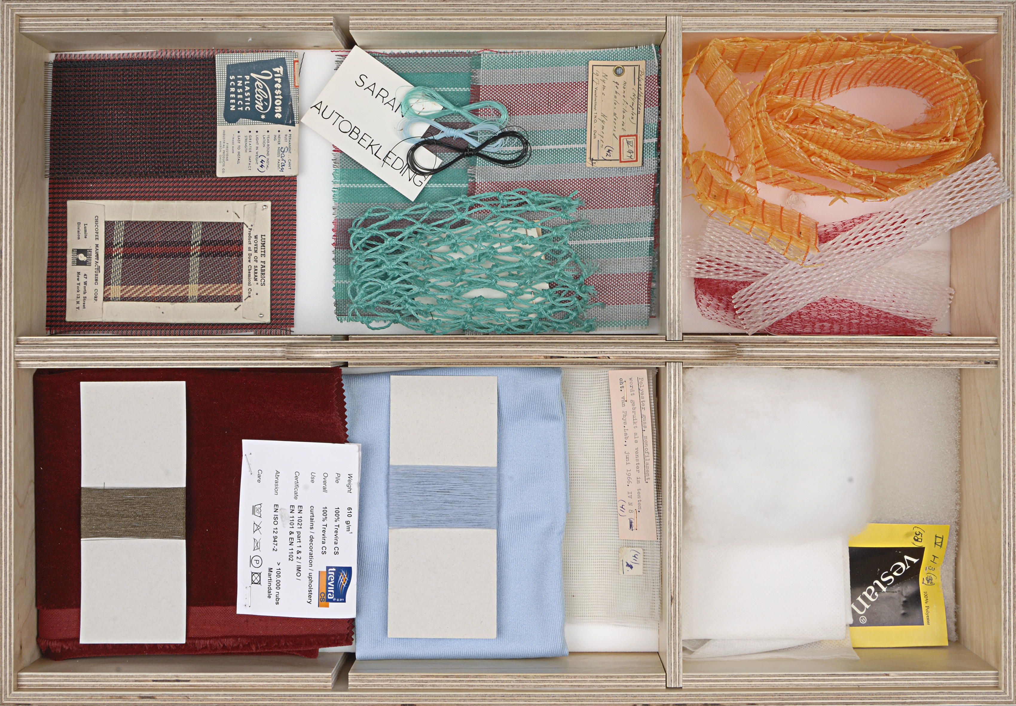 Polyetheen (PE) and Polyester (PES). Tray and samples of the textile cabinet in the Textielmuseum in Tilburg. Cabinet interior made by Simone de Waart, Material Sense.